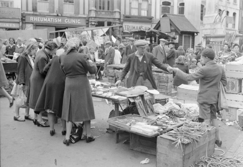 A Picture of a Southern Town- Life in Wartime Reading, Berkshire, England, UK, 1945 A busy market day scene in the market place in Reading. The stall in the foreground is selling various hardware items, such as tea pot spouts and rubber tubing.